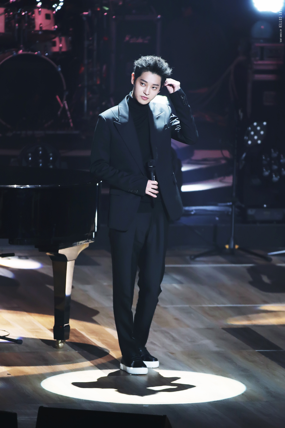 Jung Joon-young during recording for You Hee-yeol's Sketchbook on February 7, 2017.